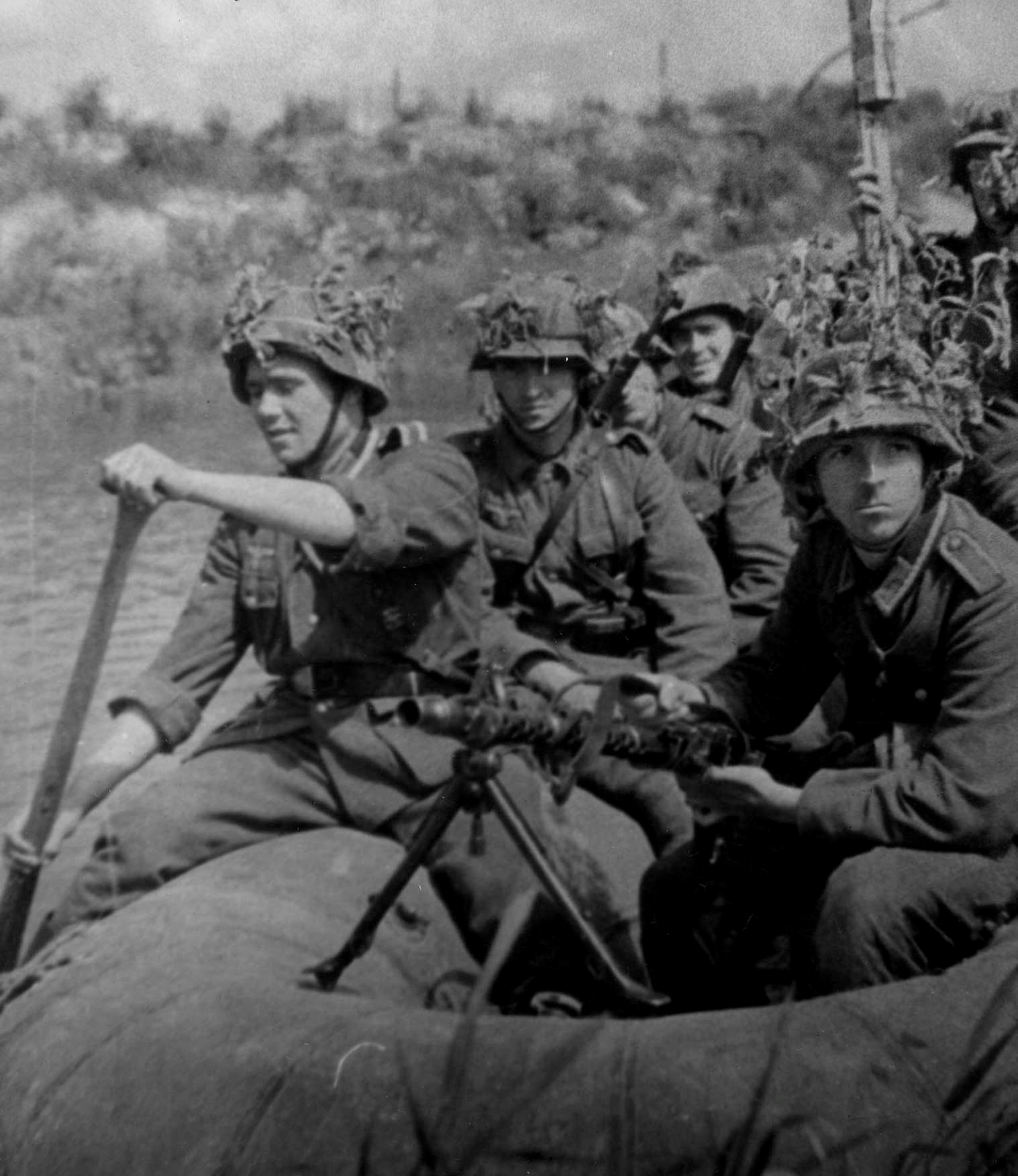 Photograph of Blue Division members aboard a raft.